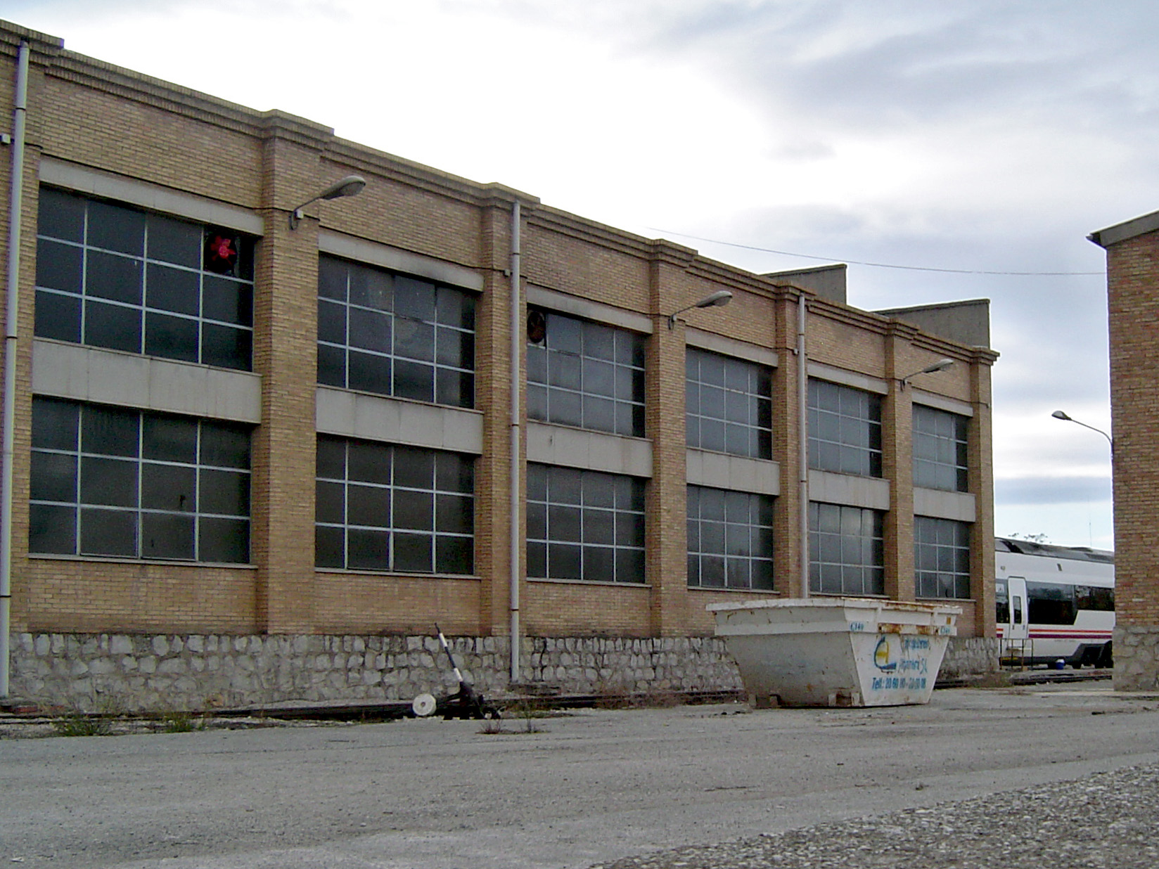 Train depot in Granada (Spain)